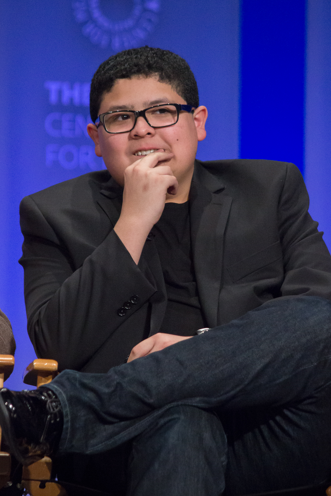 Actor Rico Rodriguez at the 2015 PaleyFest for the show "Modern Family"